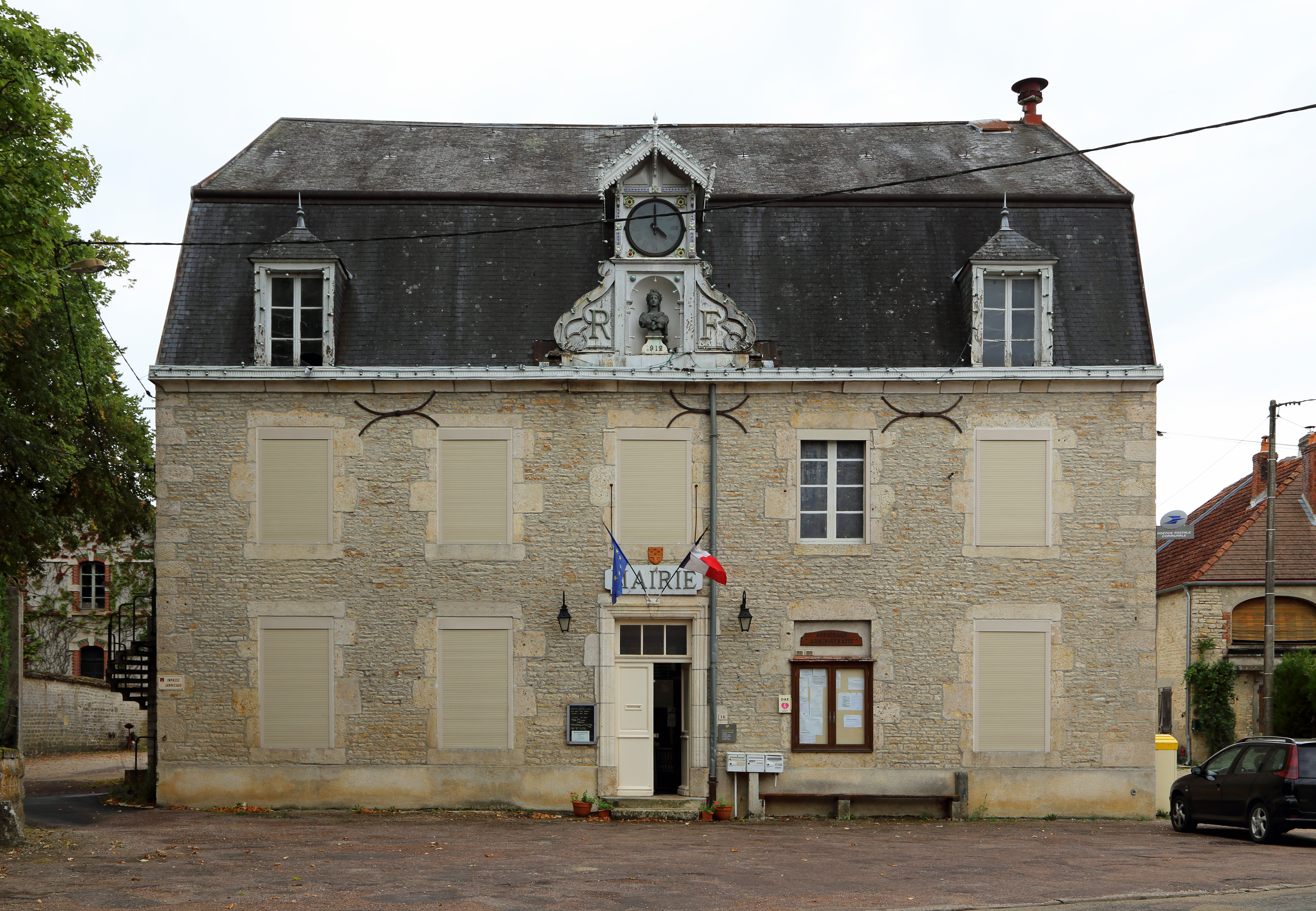 Montigny-sur-Aube (Côte-d'Or department, France): town hall